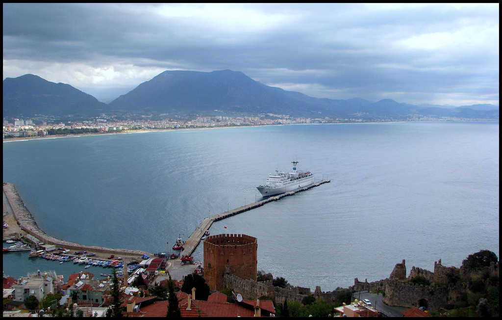 Alanya harbour